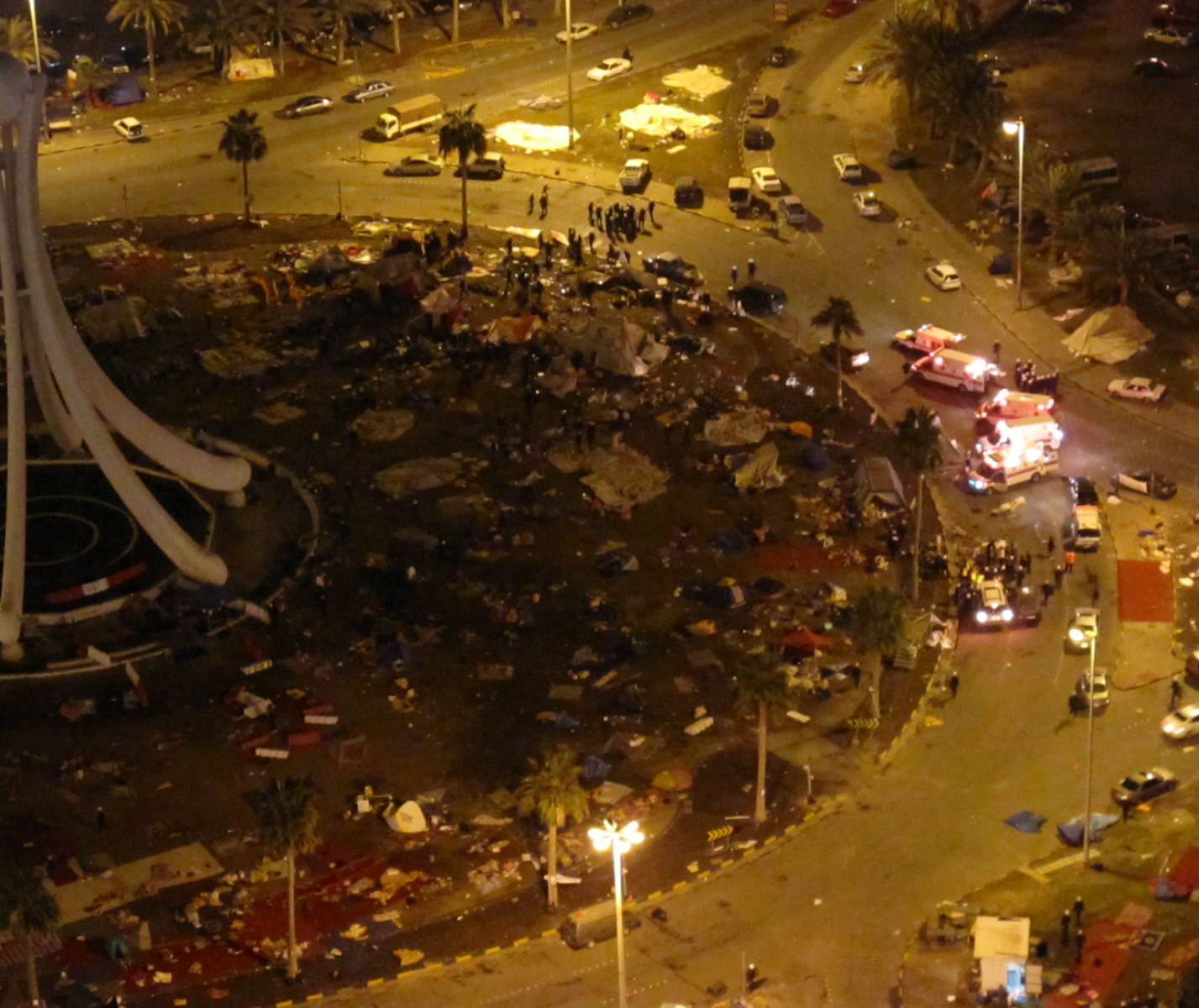 Police surrounding 5 ambulances nearby Pearl roundabout